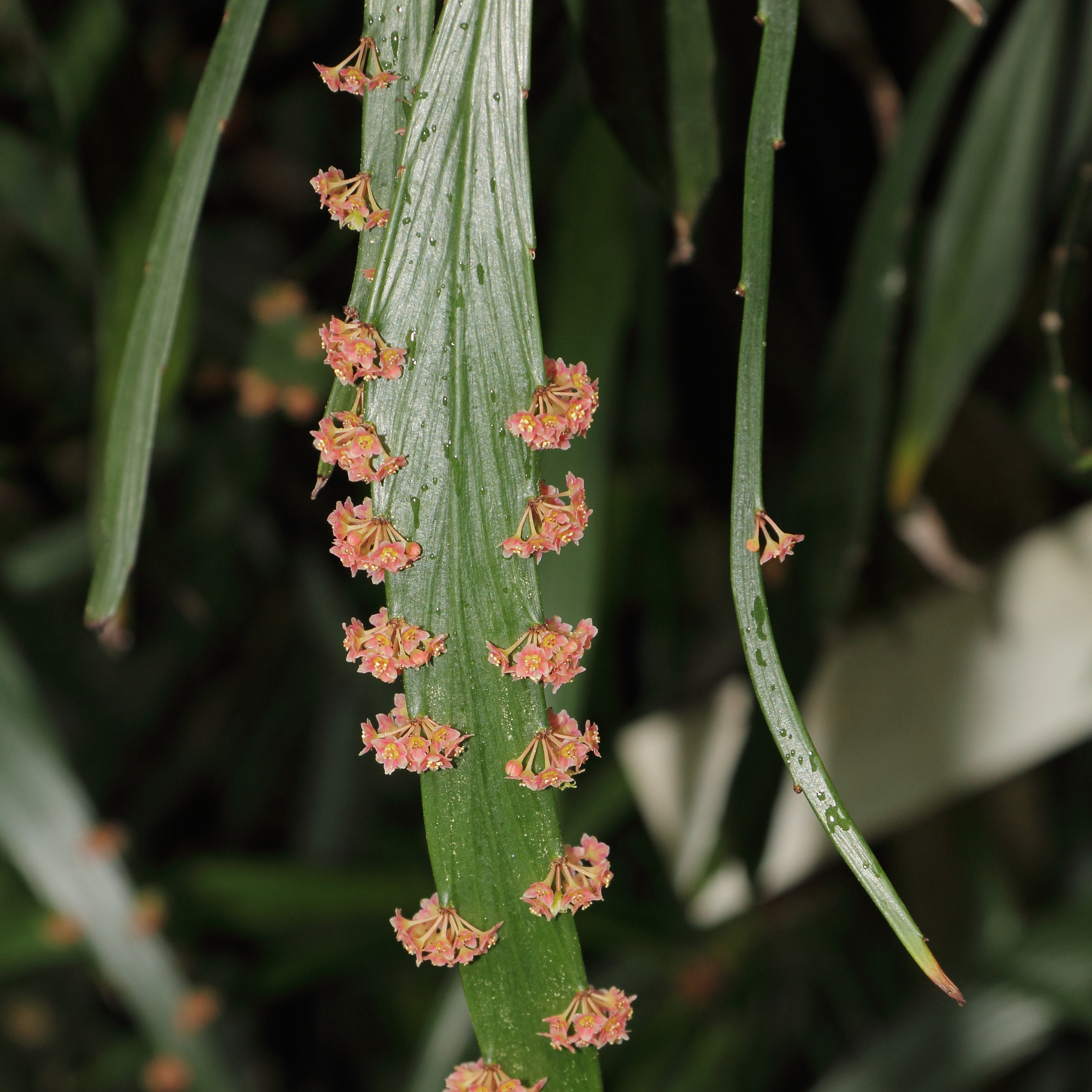 Phyllanthus angustifolius at Uppsala Botanic Gardens